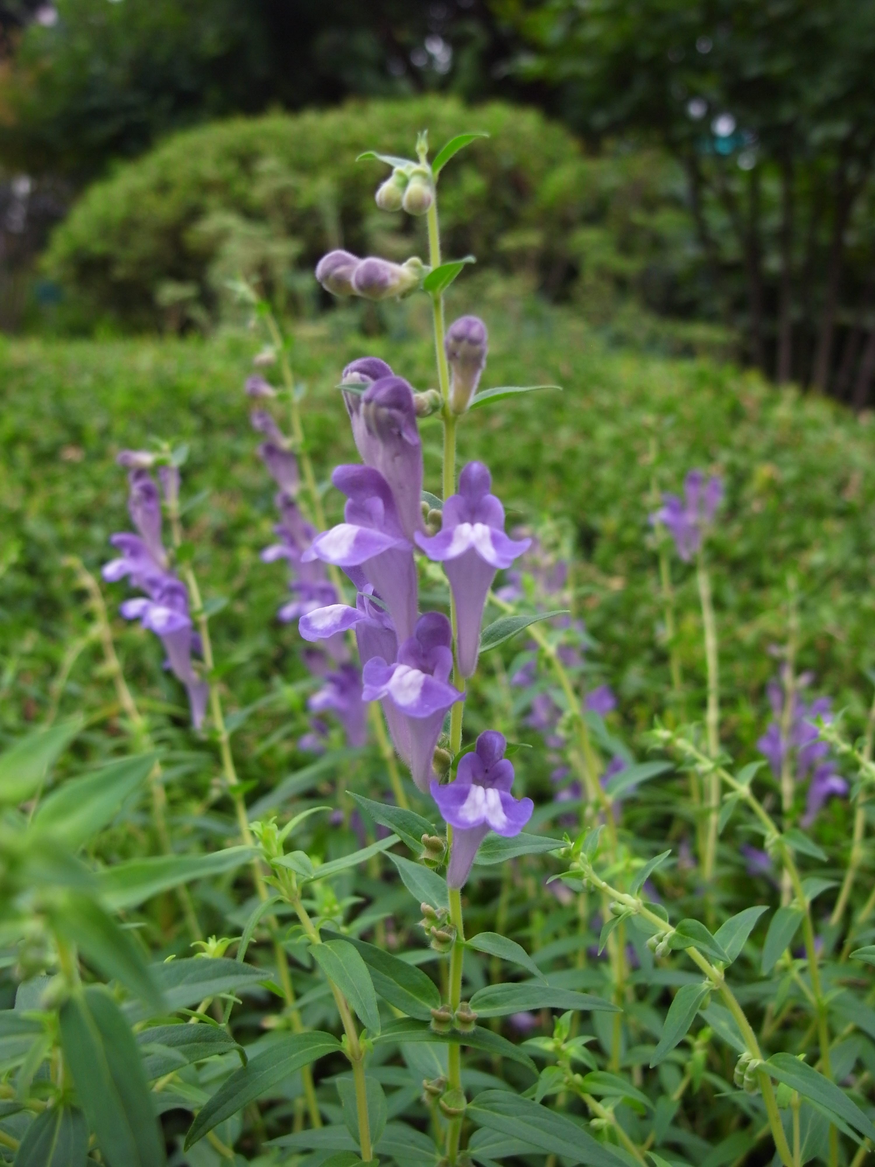 Scutellaria baicalensis